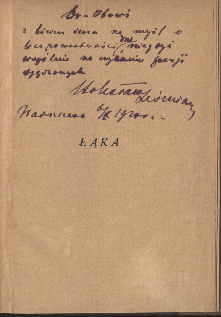 book